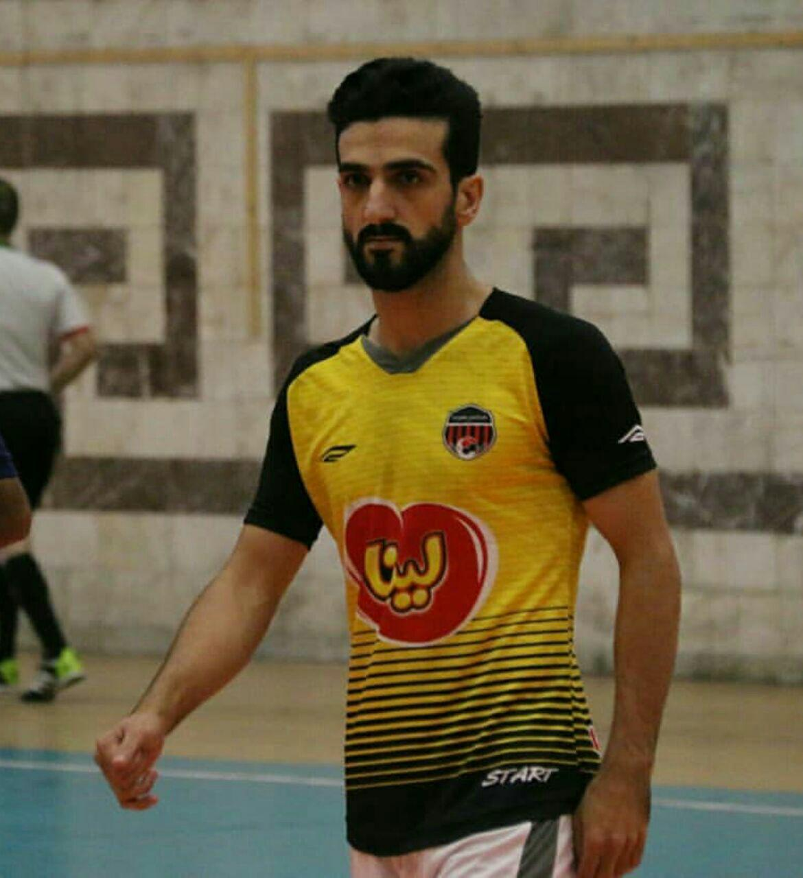 Mohammad Kouhestani